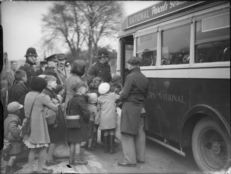 Evacuees From Bristol To Kingsbridge, Devon, 1940 Policemen and billeting officers help a group of children, evacuated from Bristol, to board a bus at Kingsbridge, Devon, which will take them to their final destination. Each child carries some kind of bag, suitcase or bundle, and they all have their gas masks with them.